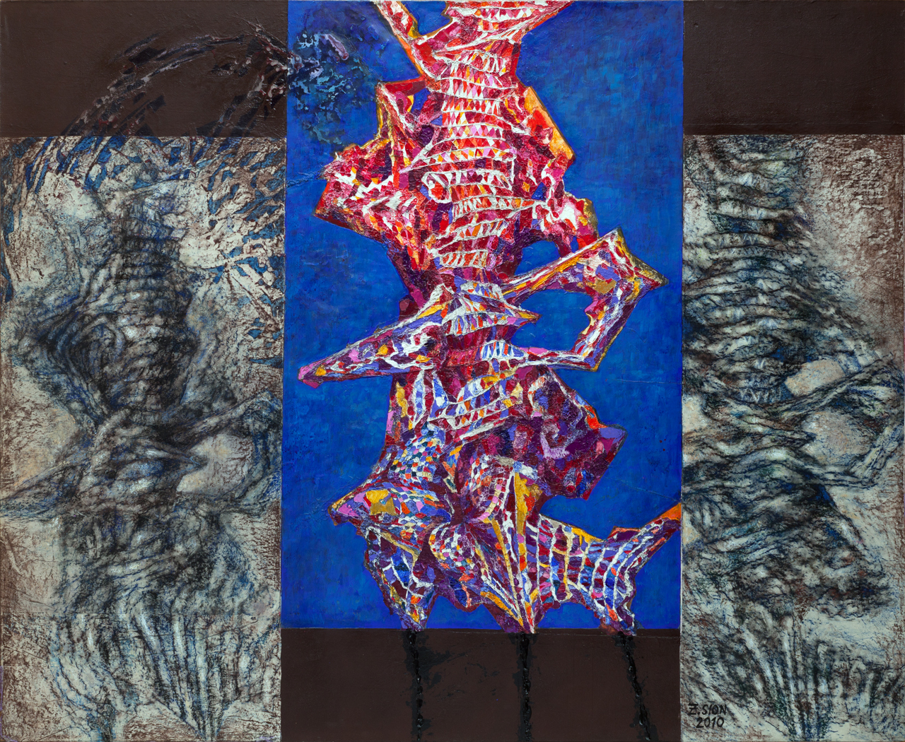 Zbyšek Sion, Plaque column (2010)